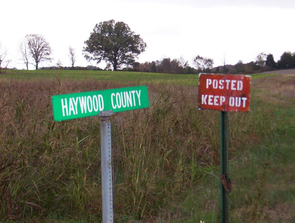 Scenic view in Haywood County Photo taken by: Thomas R Machnitzki I took the photo myself, feel free to use it. Remark: As though it might seem a manipulated photo, it is absolutely not. I am not sure if the joke was intended by the one who put up the "Posted" sign next to the county sign or not. This is exactly how I found it when I was taking some photos of Nutbush, TN in 2004. Somewhere in Haywood there is another sign reading "Posted - No Sex", exactly like that. Well, maybe there are just some fun-loving people living in this nice county.